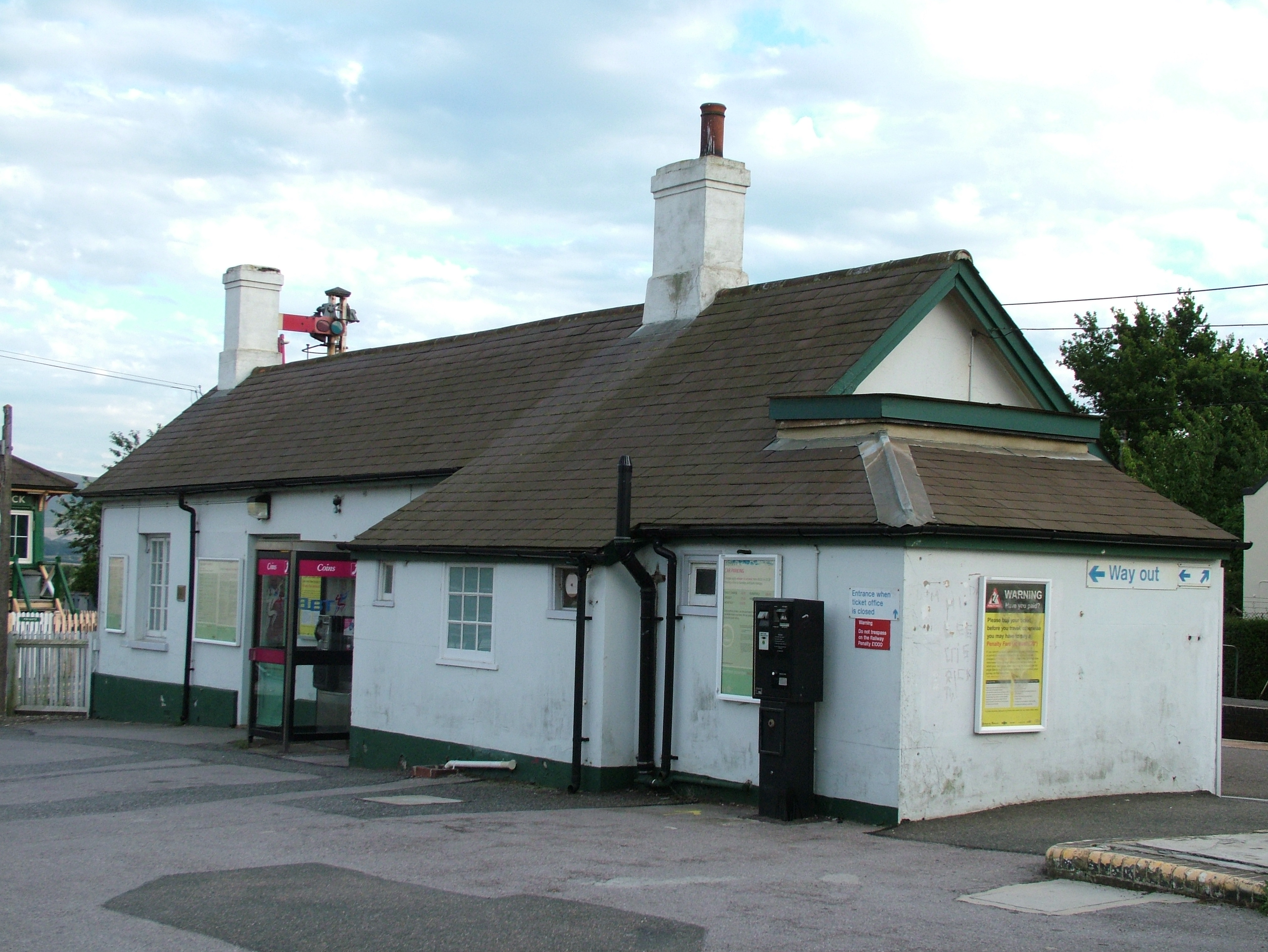 The main building at Berwick (Sussex) railway station, located on the down platform. 11 August 2005.